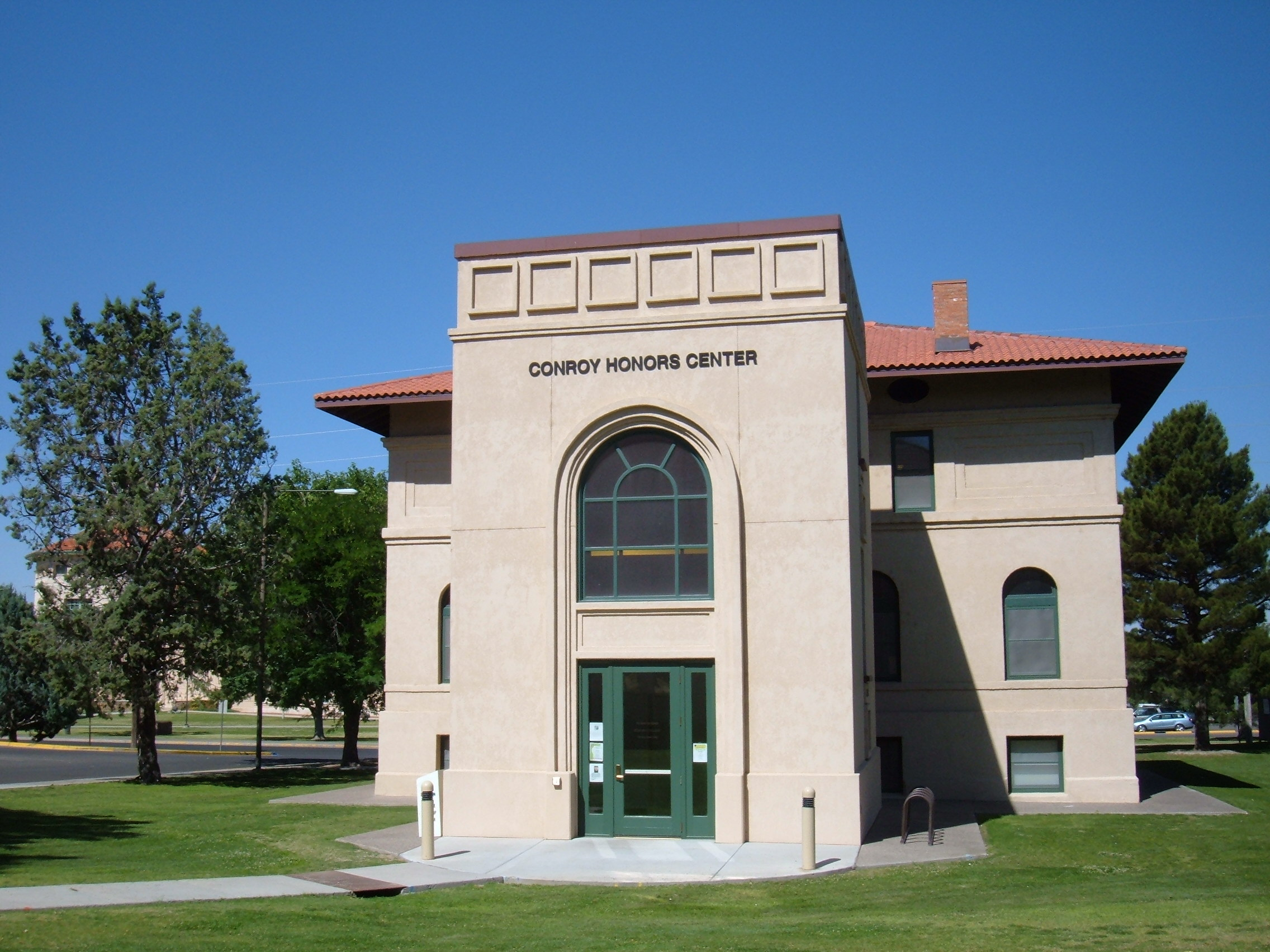 William Conroy Honors Center building at New Mexico State University, Las Cruces, New Mexico. Located at the northeast corner of Sloan and Espina just north of the Horseshoe. Constructed in 1909 as the YMCA building, and later was the headquarters of the USAF ROTC program. On the National Register of Historic Places, NRIS Item No. 88001546.